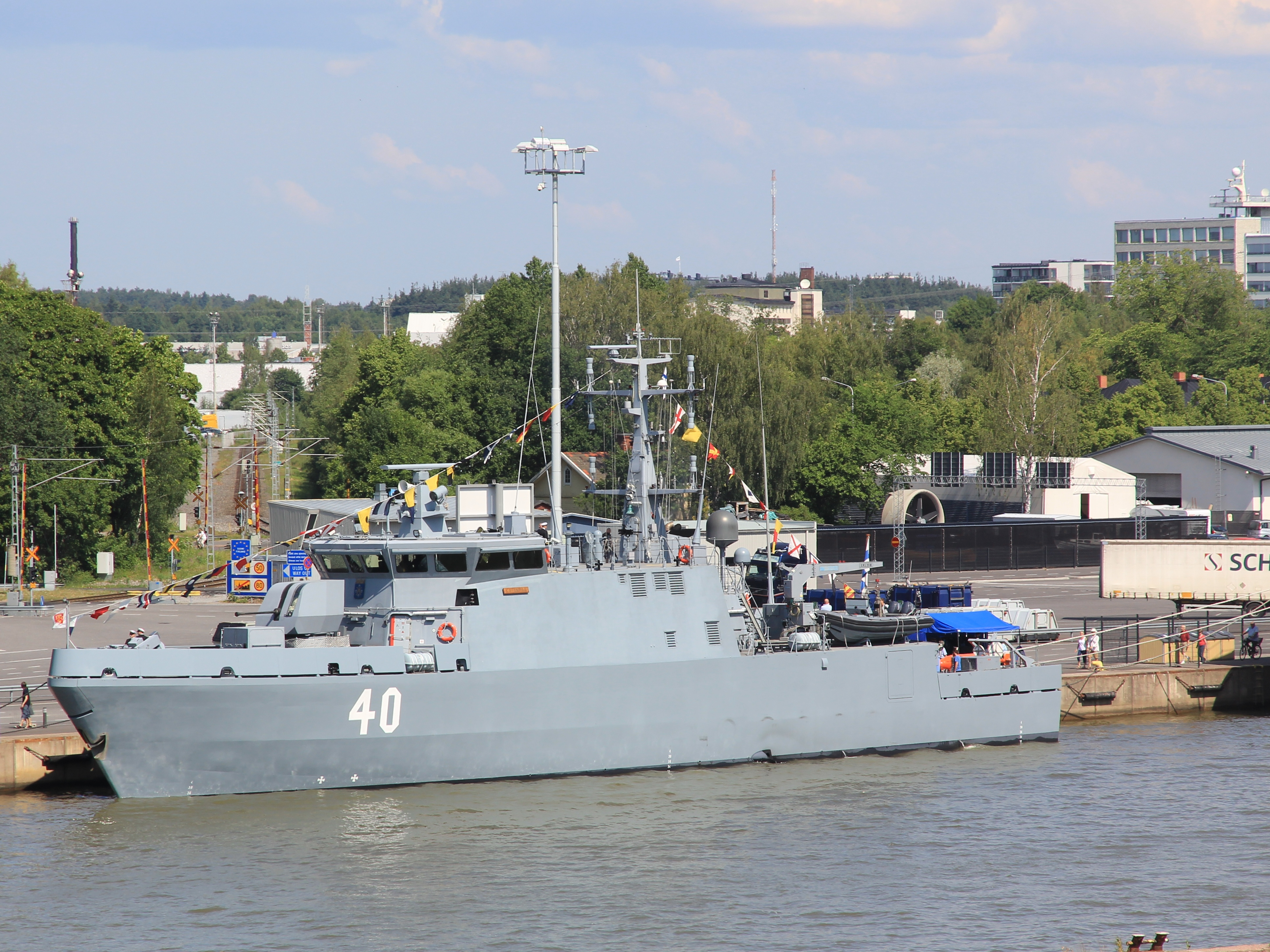 Mine countermeasure vessel Katanpää (40) in Aura river in Turku during Finnish Navy 2014 anniversary.